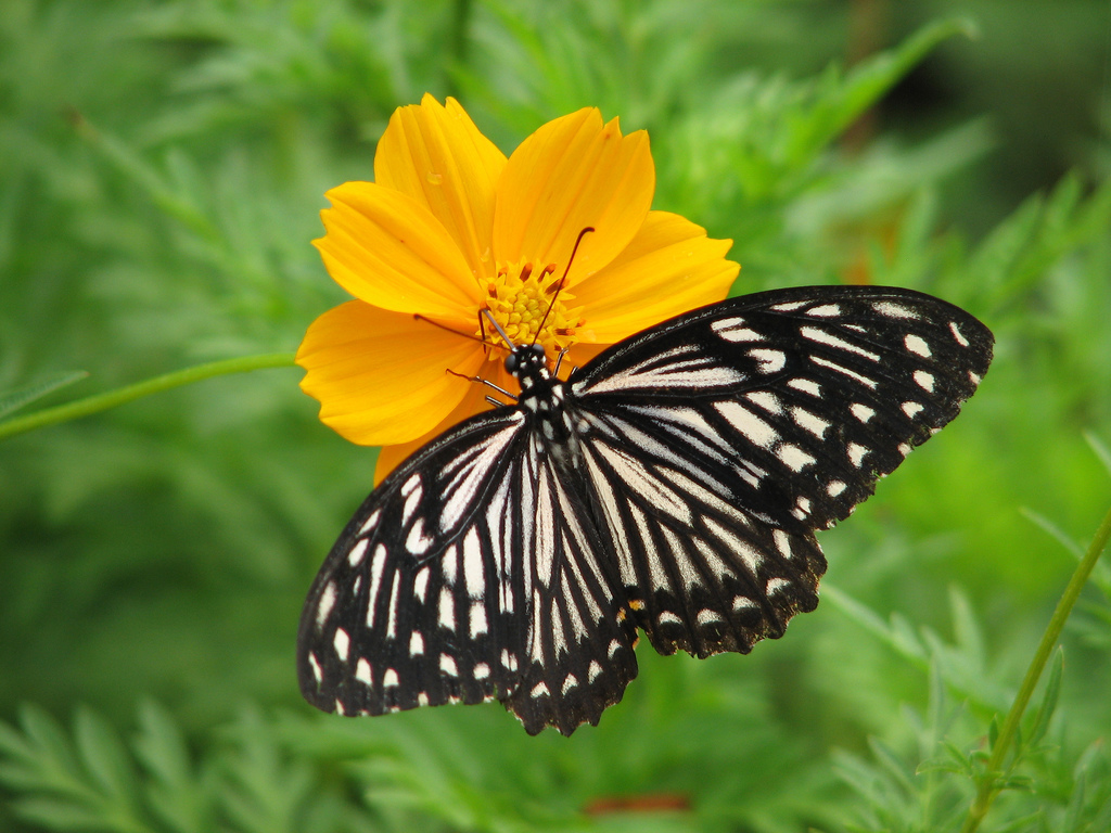 Papilio clytia form dissimilis, upper-side (mimics the Blue Tiger Tirumala limniace). The Common Mime, Papilio clytia, is a Swallowtail butterfly found in South and South-east Asia. The butterfly belongs to the Chilasa group or the Black-bodied Swallowtails. It serves an excellent example of a Batesian mimic among the Indian butterflies.